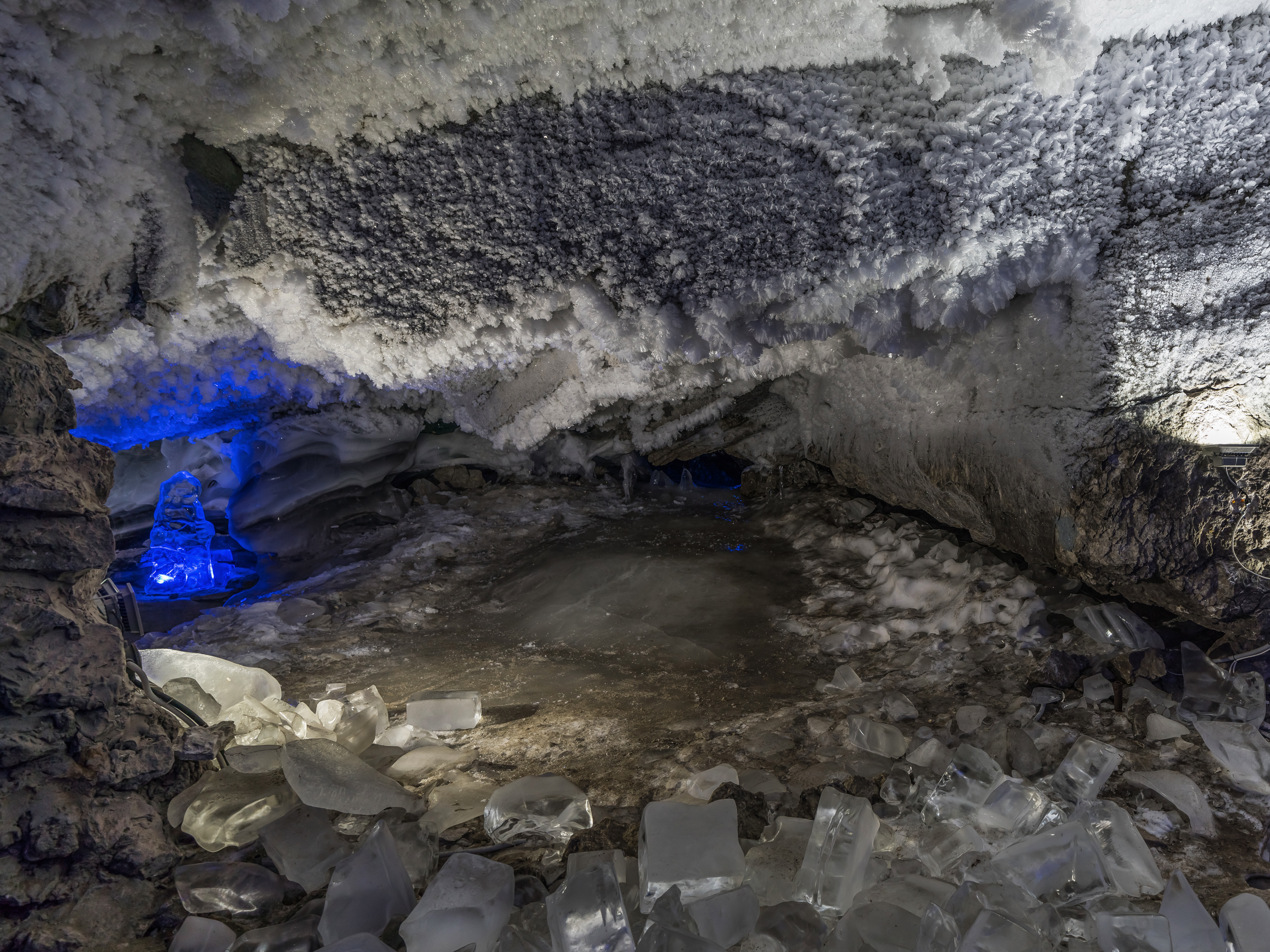 Diamond Grotto of the Ice Cave in Kungur, Perm Krai, Russia